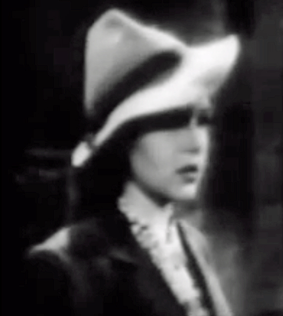 Helen Parrish in trailer to "Little Tough Guy" (1938)